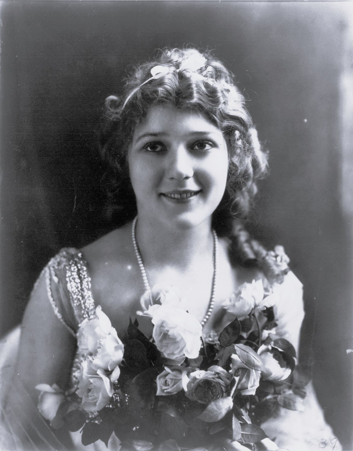 Mary Pickford, head and shoulders portrait, holding flowers, facing front